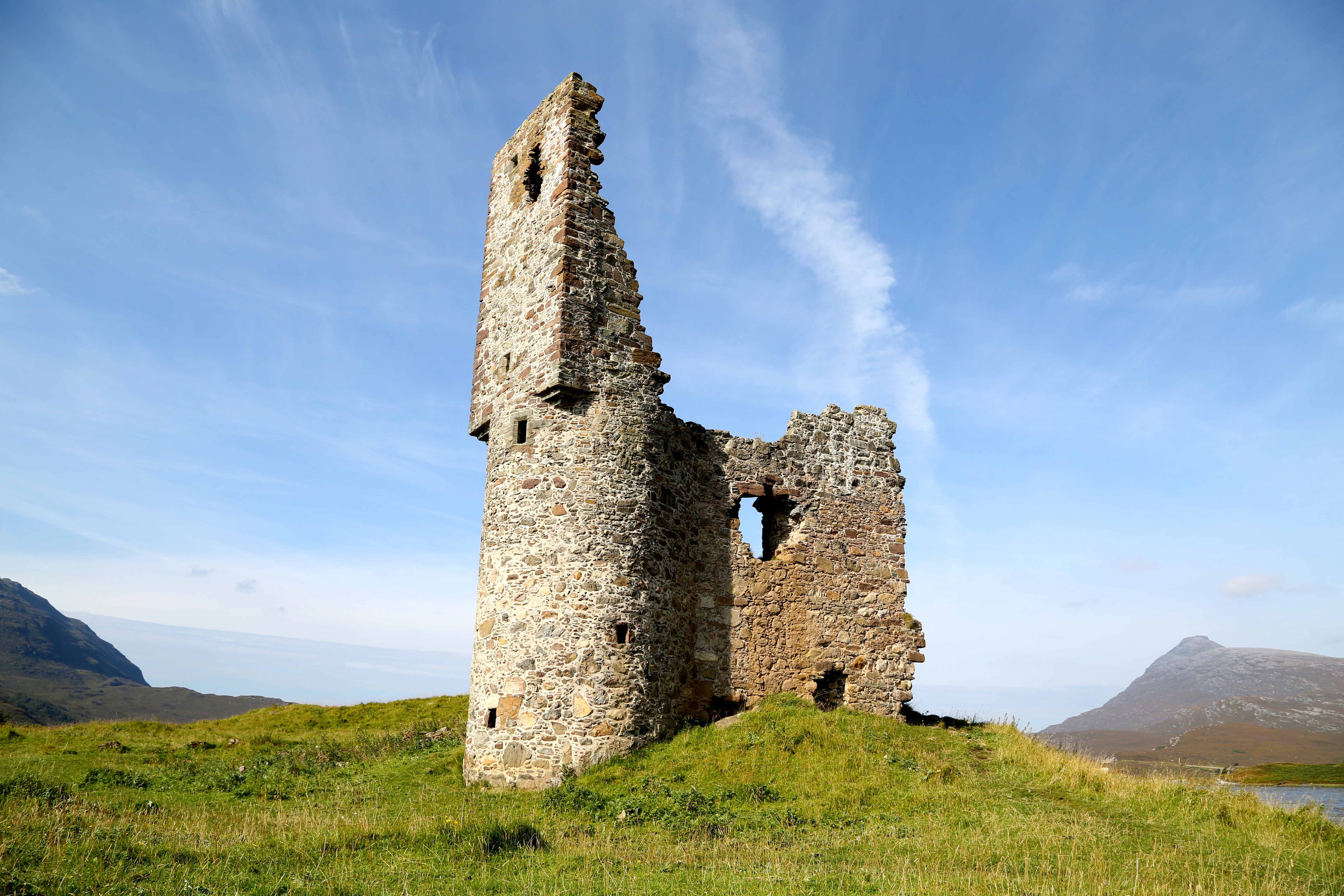 ARDVRECK CASTLE Wikidata has entry Q17815322 with data related to this building.